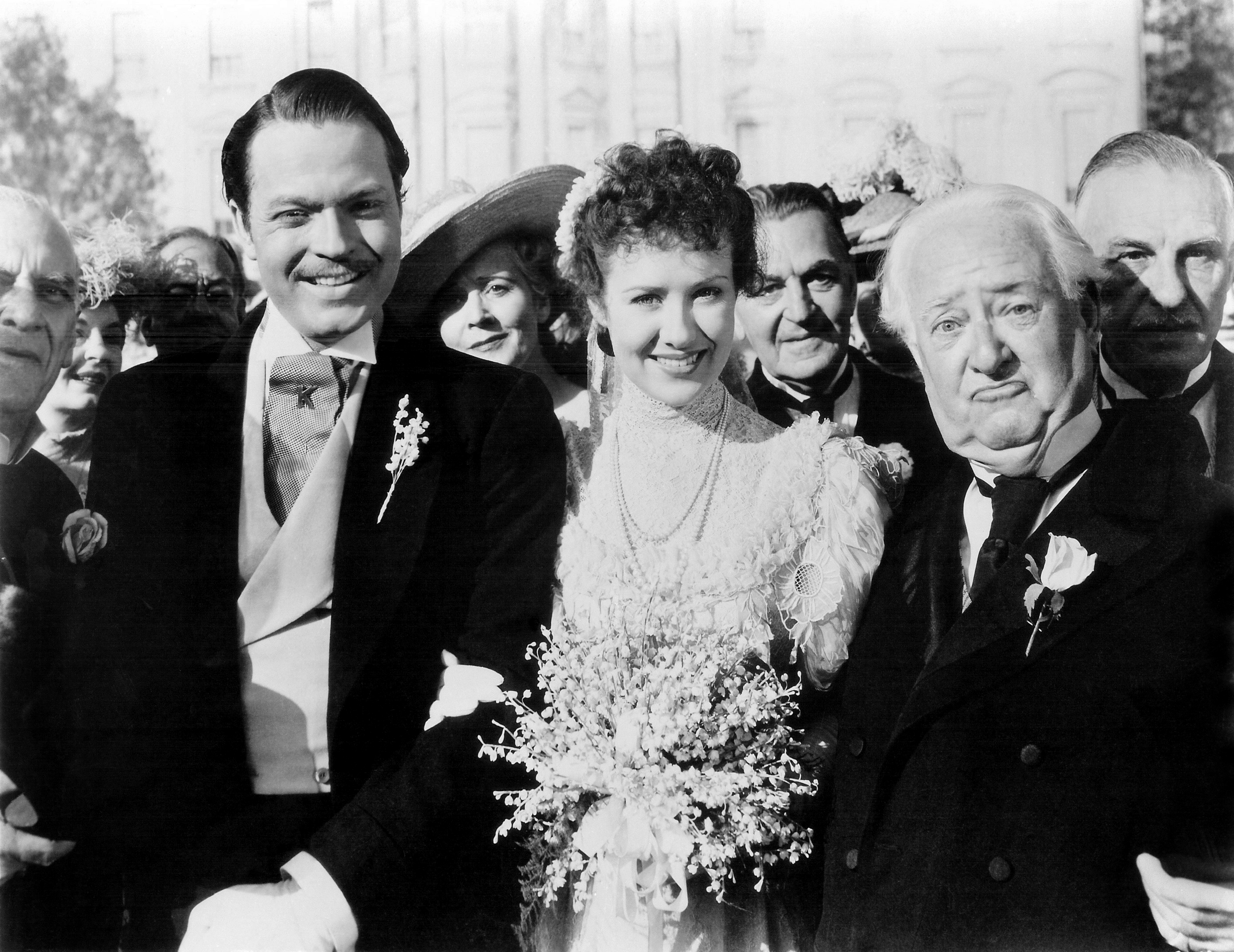 Promotional still for the 1941 film, Citizen Kane